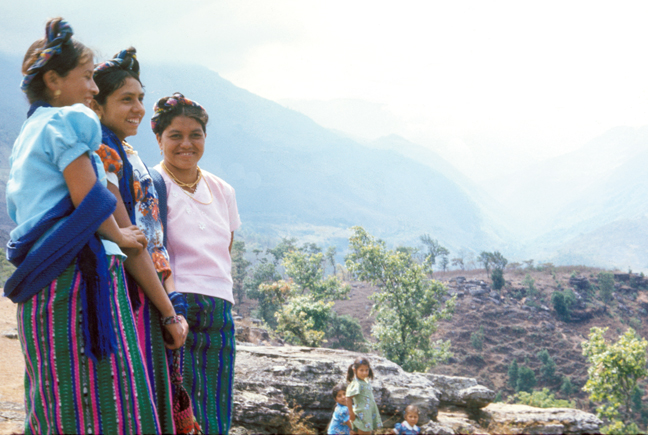 Thelma Jacinto Camposeco, María Sanchez, y Elisa Silvestre Montejo on the path between Jacaltenango and San Marcos.